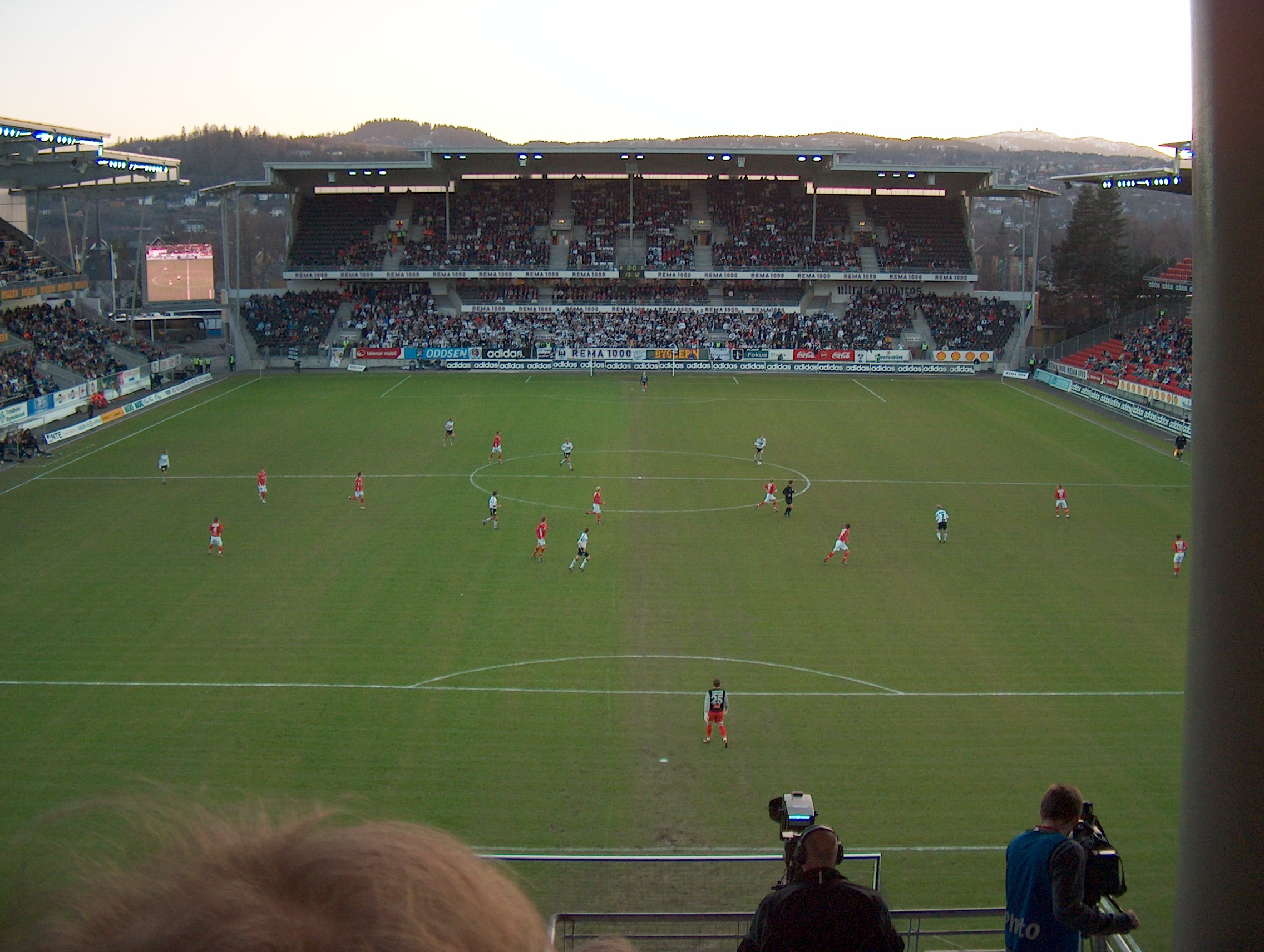 Lerkendal stadion in Trondheim, Norway.